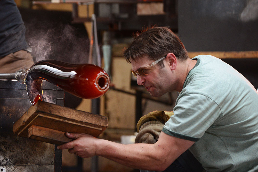 Glass Artist David Patchen working on a sculpture